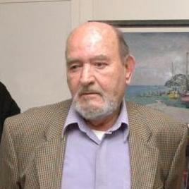 Damyan Zaberski (1929-2006), Bulgarian painter